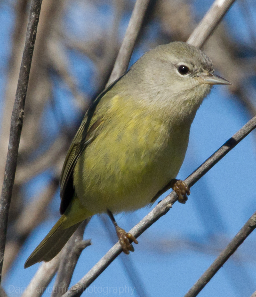 Orange-crowned Warbler Leiothlypis celata, Freeport, Texas